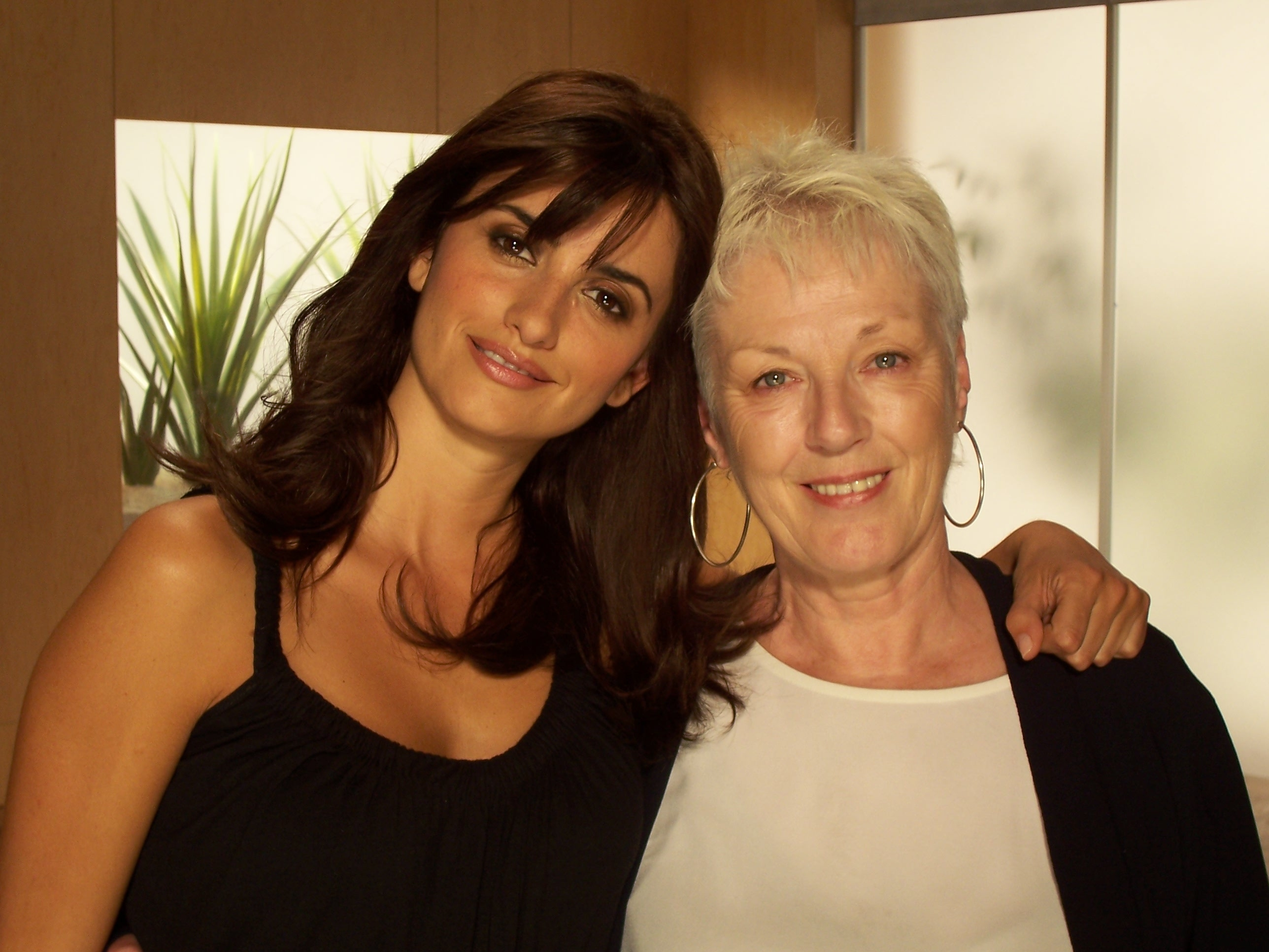 Katrina Bayonas, Actors' agent, Film Producer and Casting Director. Best known for discovering the actress Penélope Cruz and managing her career.